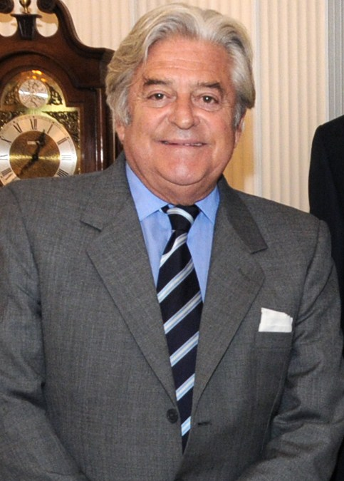 Former President of Uruguay, Luis Alberto Lacalle.